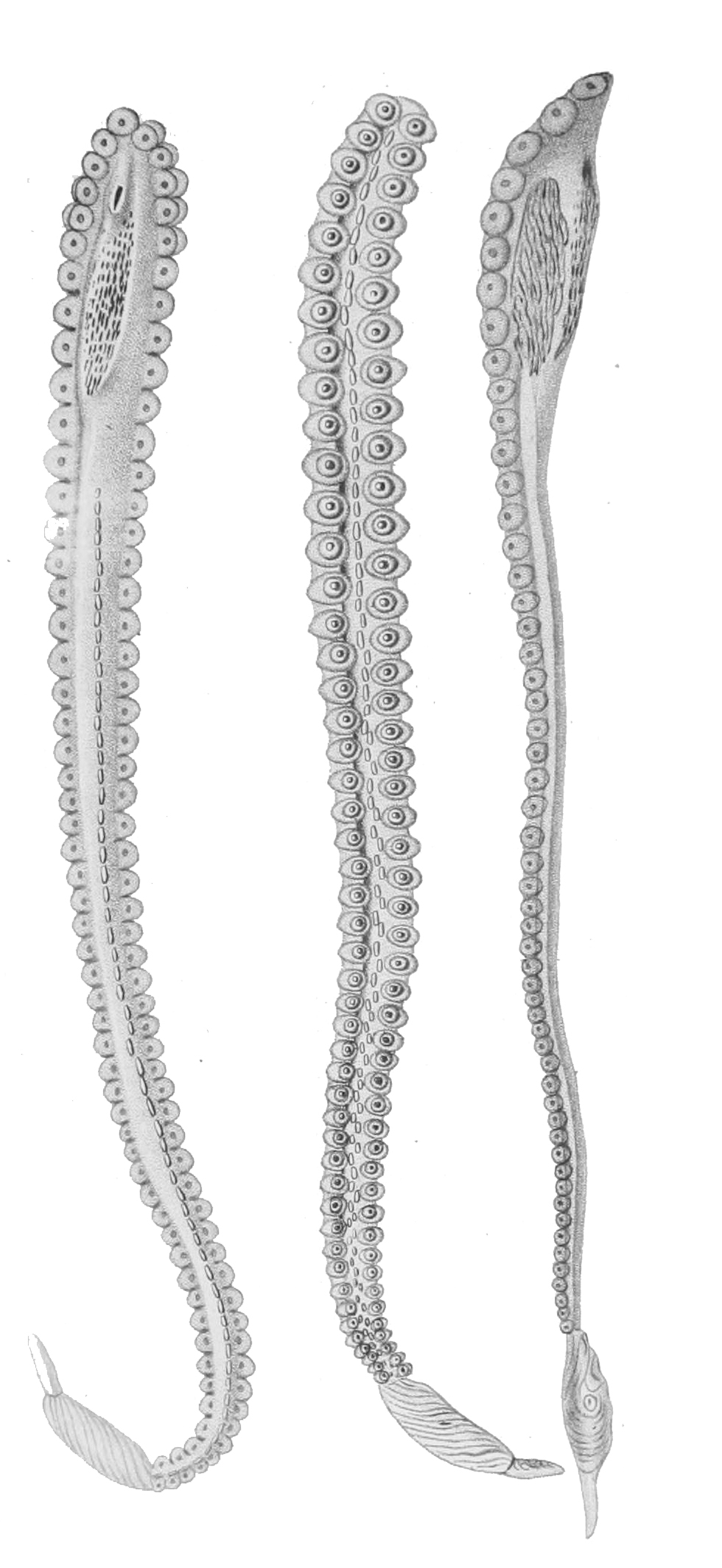 Hectocotyle by Georges cuvier. The name "hectocotylus" was devised by Georges Cuvier, who first found one embedded in the mantle of a female argonaut; supposing it to be a parasitic worm, Cuvier gave it a generic name.